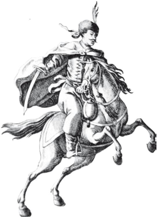 Kazimierz Pułaski, marshal of Łomża in Bar Confederation, Johan Martin Will engraving